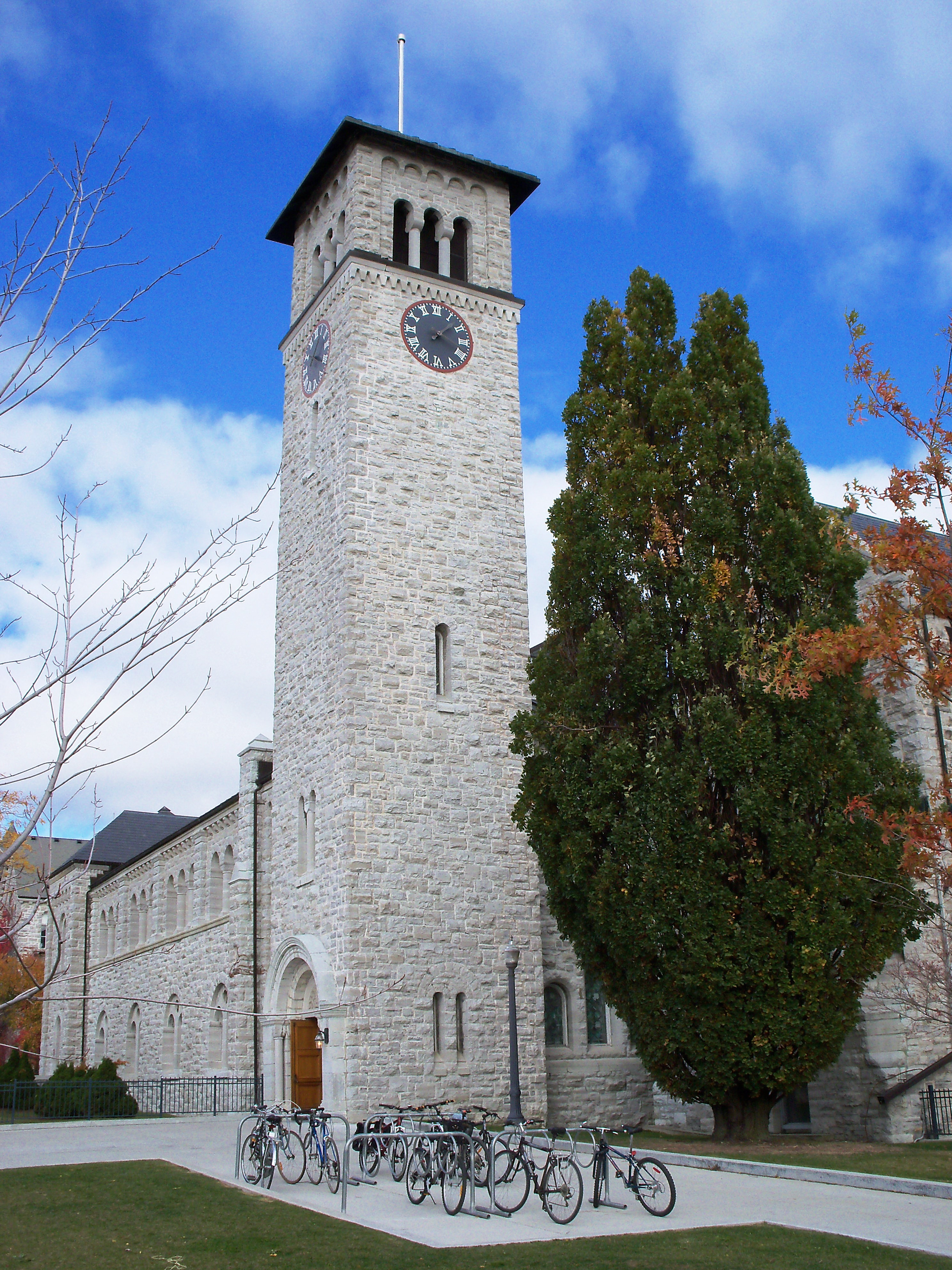 Grant Hall Tower